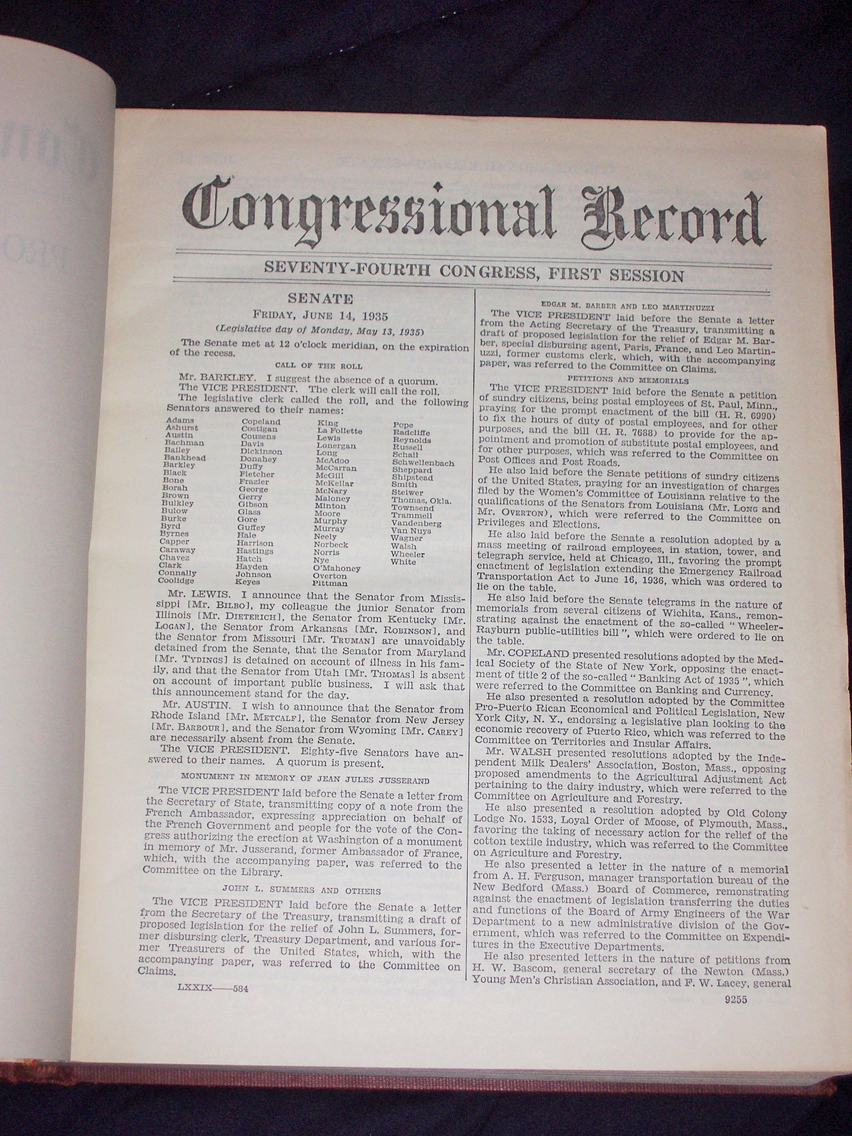 Original work of the US Federal Government; Congressional Record